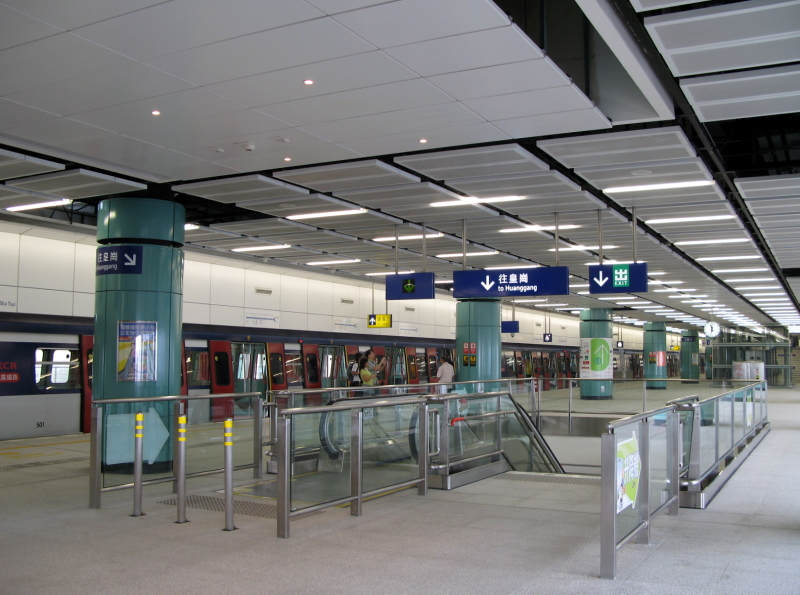 HK KCR Lok Ma Chau Station Platform